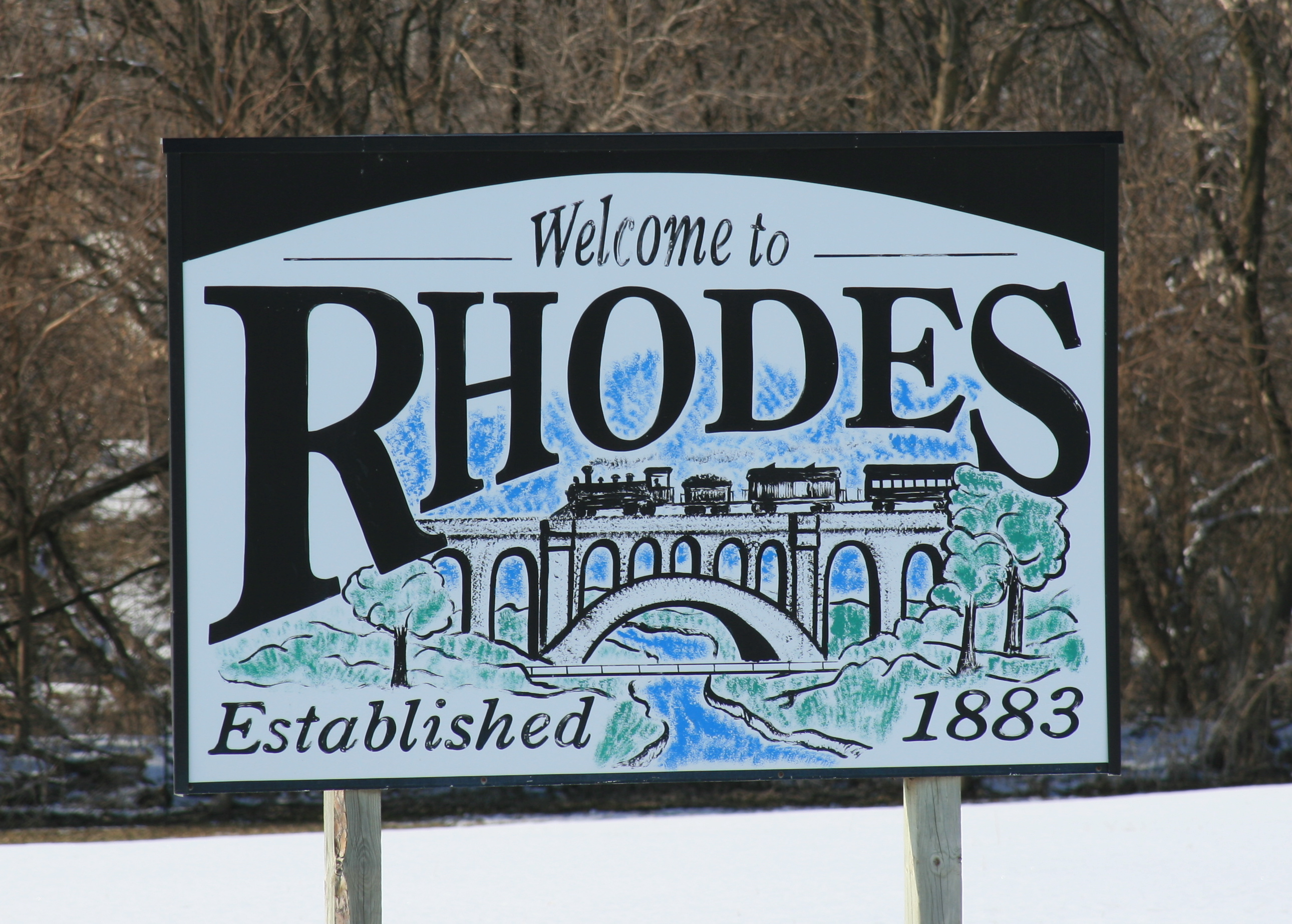 Welcome sign outside Rhodes, Iowa